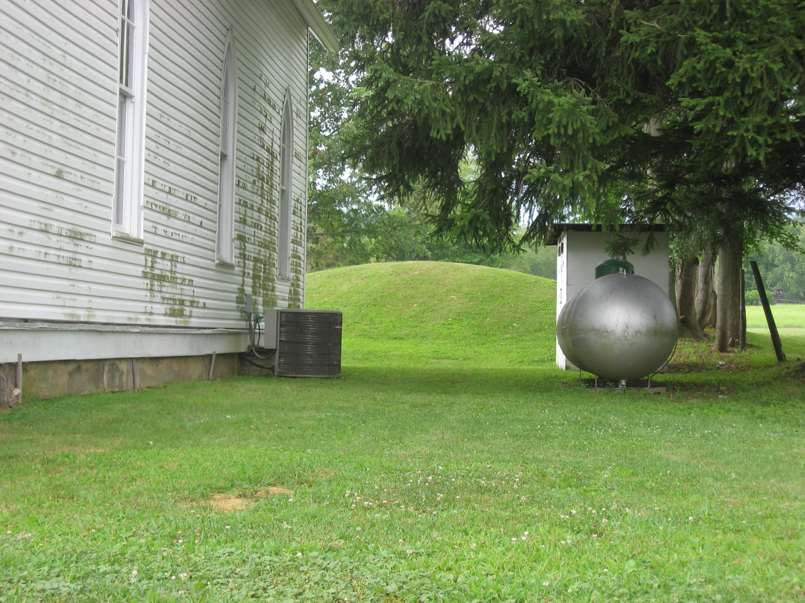 Eastern side of the Zaleski Methodist Church Mound, located at 114 Broadway Street in Zaleski, Ohio, United States. Built by the prehistoric Adena culture, it is listed on the National Register of Historic Places.